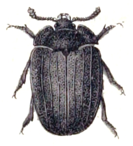 Peltis grossa, from Calwer's Käferbuch, Table 14, Picture 18. Taxonomy was updated to 2008, using mostly the sites Fauna Europaea and BioLib. Please contact Sarefo if the determination is wrong!